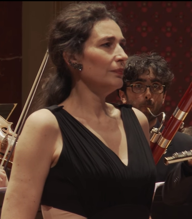 Veronique Gens video still when singing Hippolyte et Aricie- "Cruelle mère des amours" with Geneva Camerata Victoria Hall, Geneva, 21.5.2015